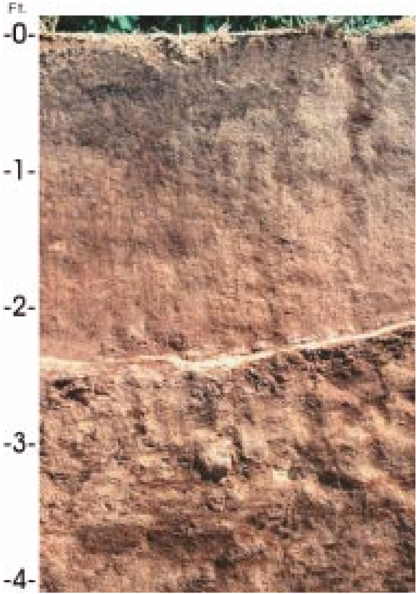 San Joaquin Soil Profile - Surface layer is brown loam, upper subsoil upper is brown loam, lower subsoil is brown clay, substratum is light brown and brown, indurated duripan with 70 to 90 percent silica-sesquioxide cementation.